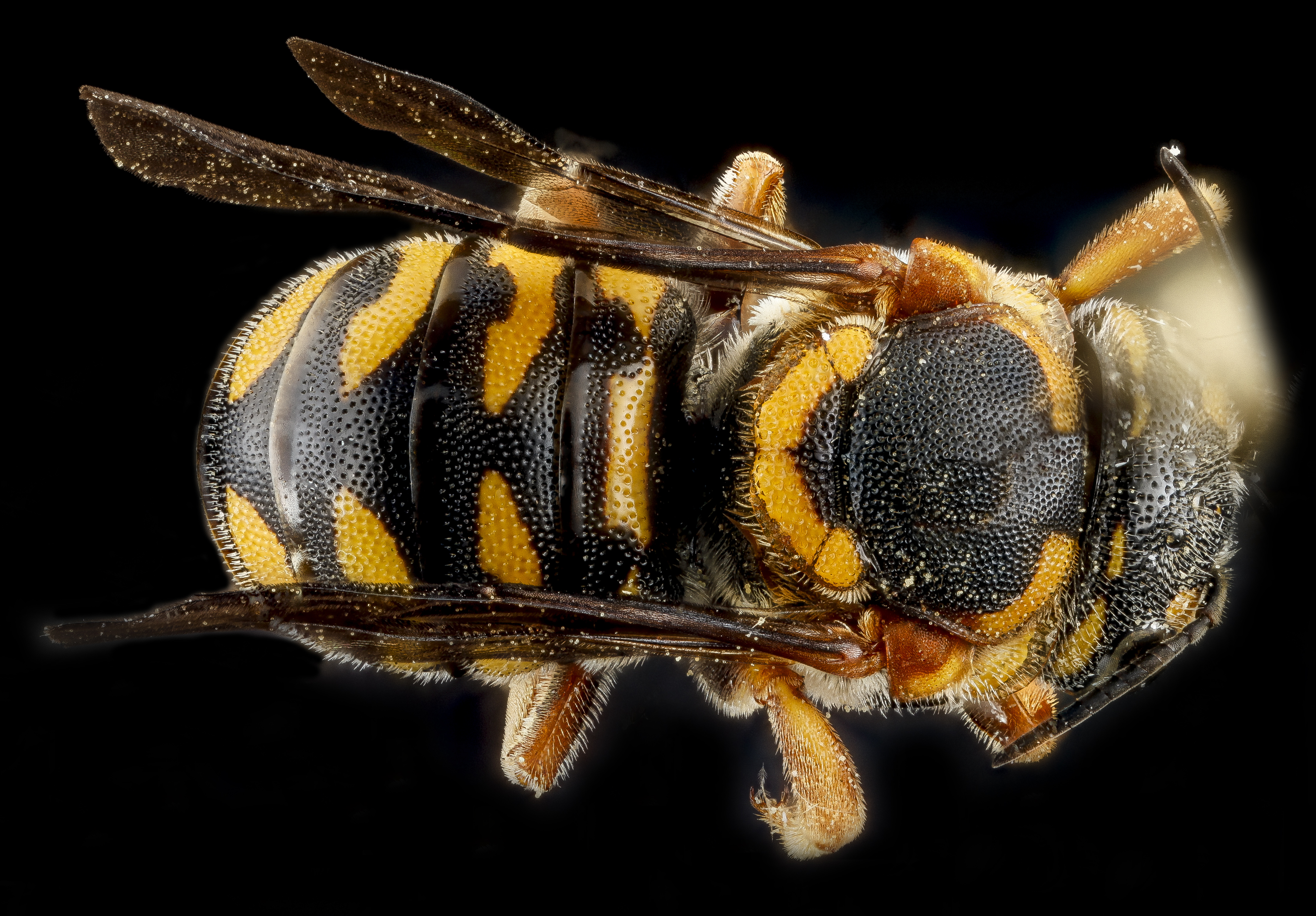 South Carolina, carolina sandhills national wildlife refuge